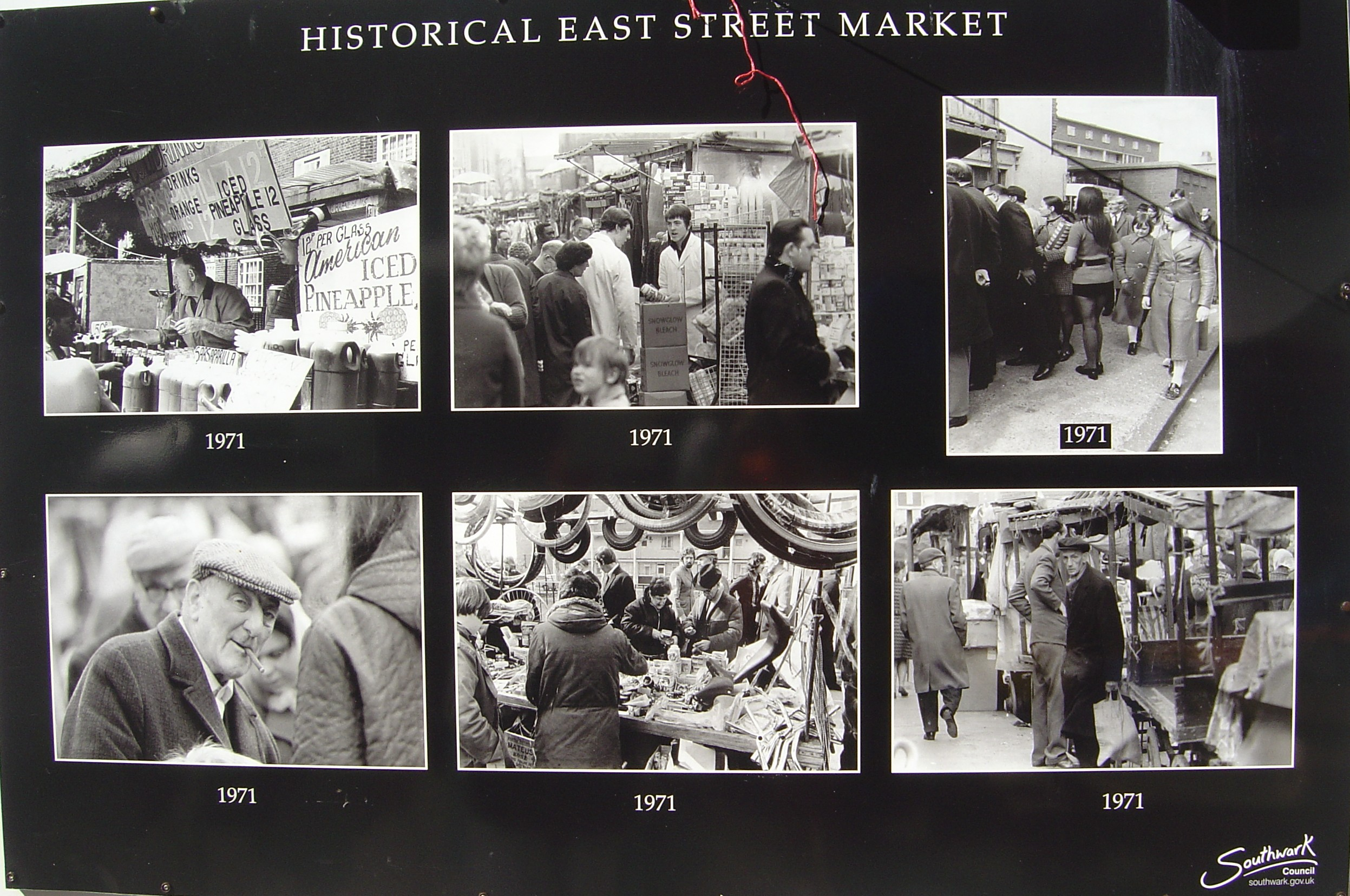 Photo montage of East St. market